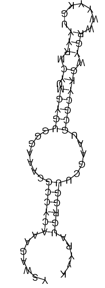 RNA secondary structure of TB8Cs3H1 generated by the WAR server( It is the consensus structure from several Trypansomatid species -Leishmania major, Leishmania infantum, Leishmania braziliensis, Trypanosoma brucei, Trypanosoma brucei gambiense, Trypanosoma cruzi, Trypanosoma congolense, Trypansoma vivax